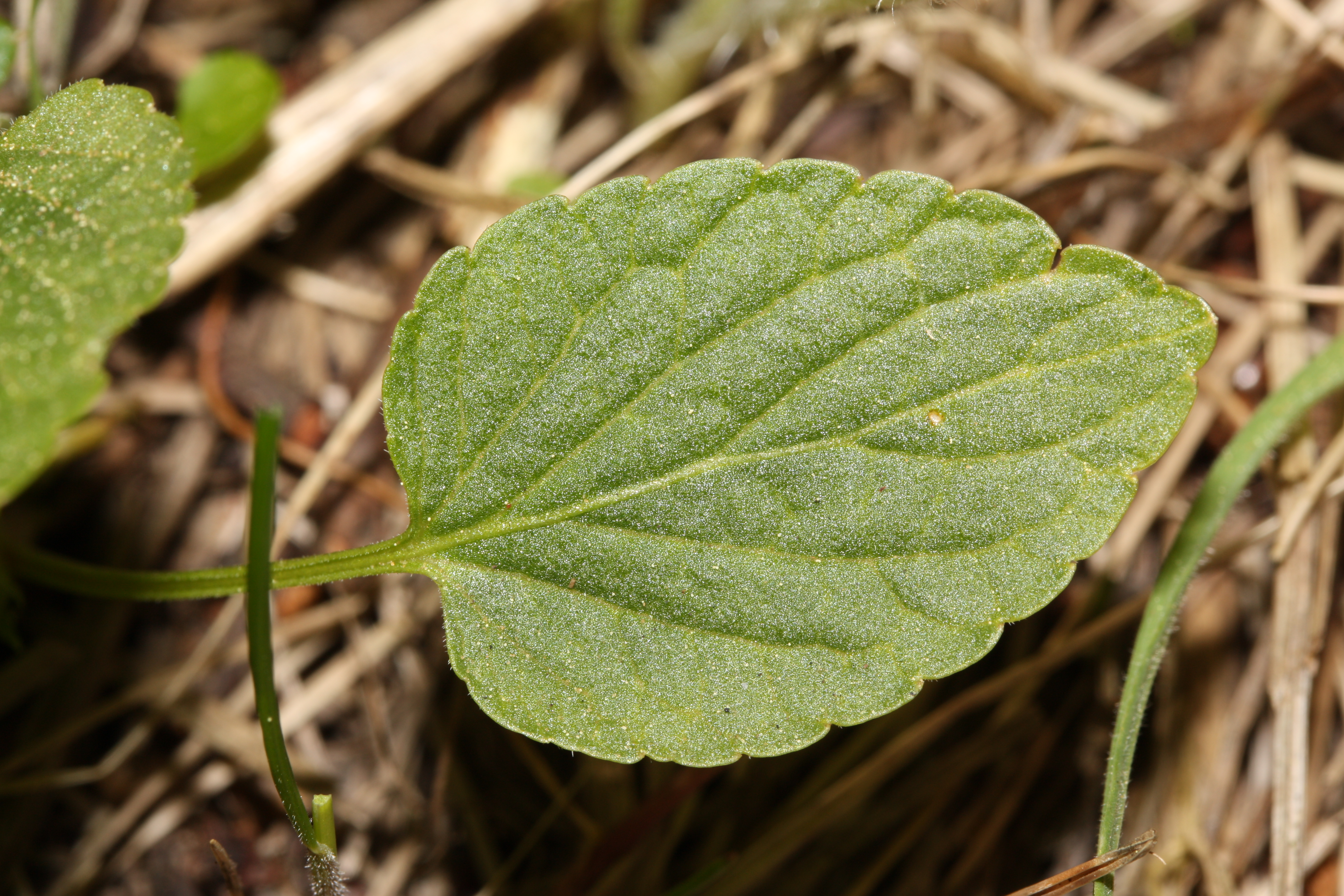 Viola Aduncahookedspur Violet, Early Blue Violet; auth. Sm.